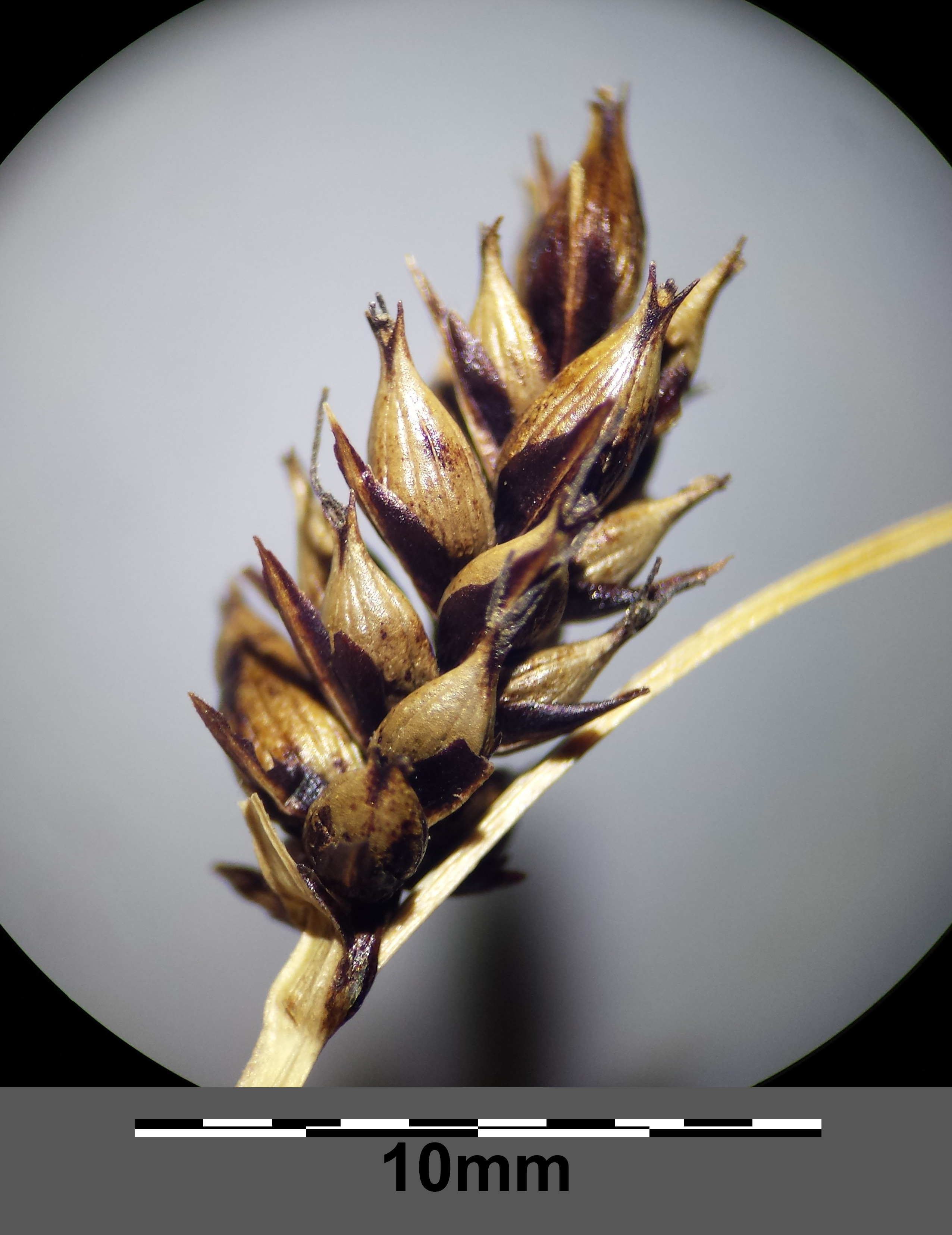 Female spike with fruits Taxonym: Carex melanostachya ss Fischer et al. EfÖLS 2008 ISBN 978-3-85474-187-9 Location: Floridsdorf rail station, Vienna-Floridsdorf - ca. 160 m a.s.l. Habitat: area below a pipe